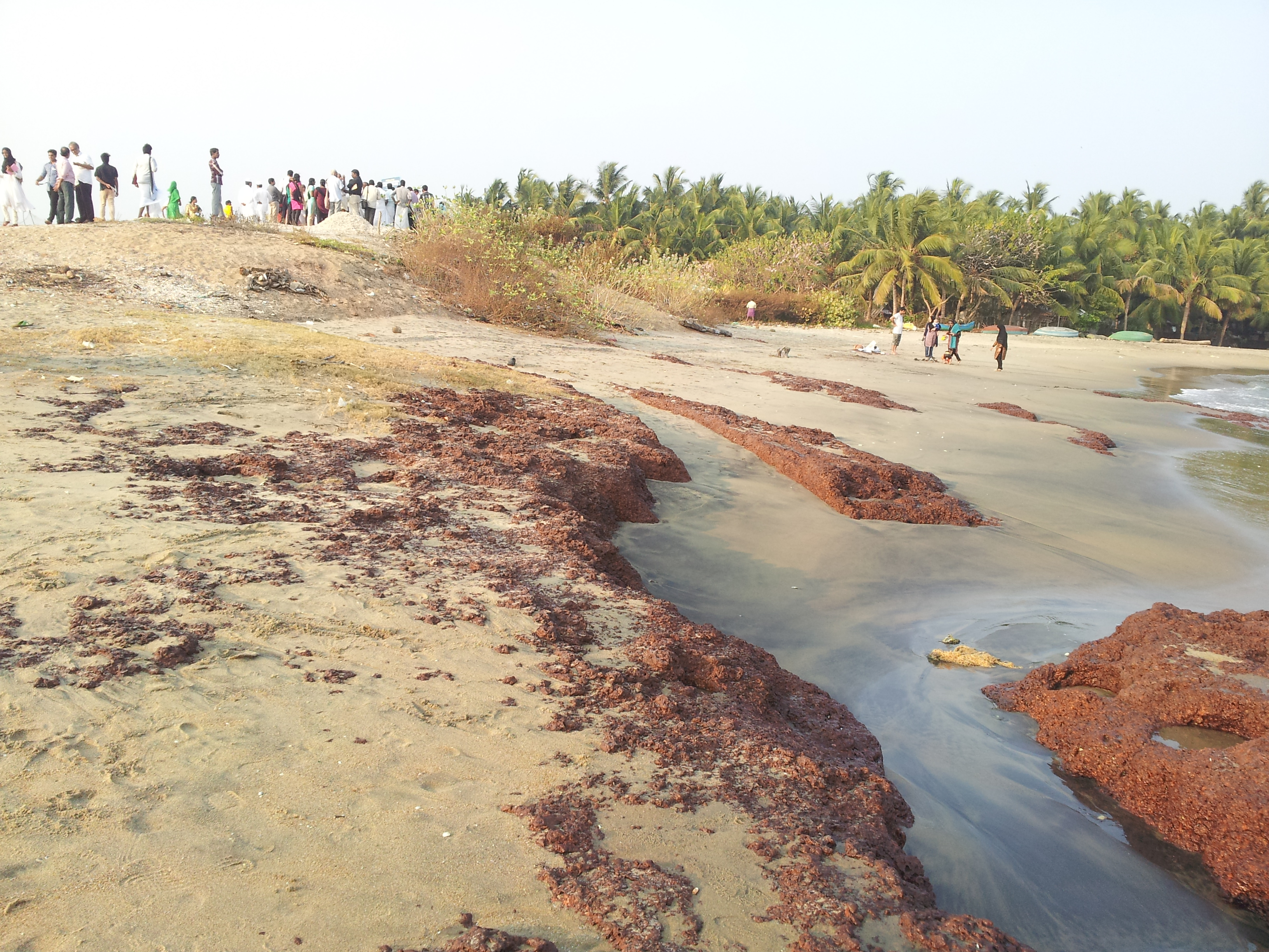 This photograph is a particle of chaliyam fort